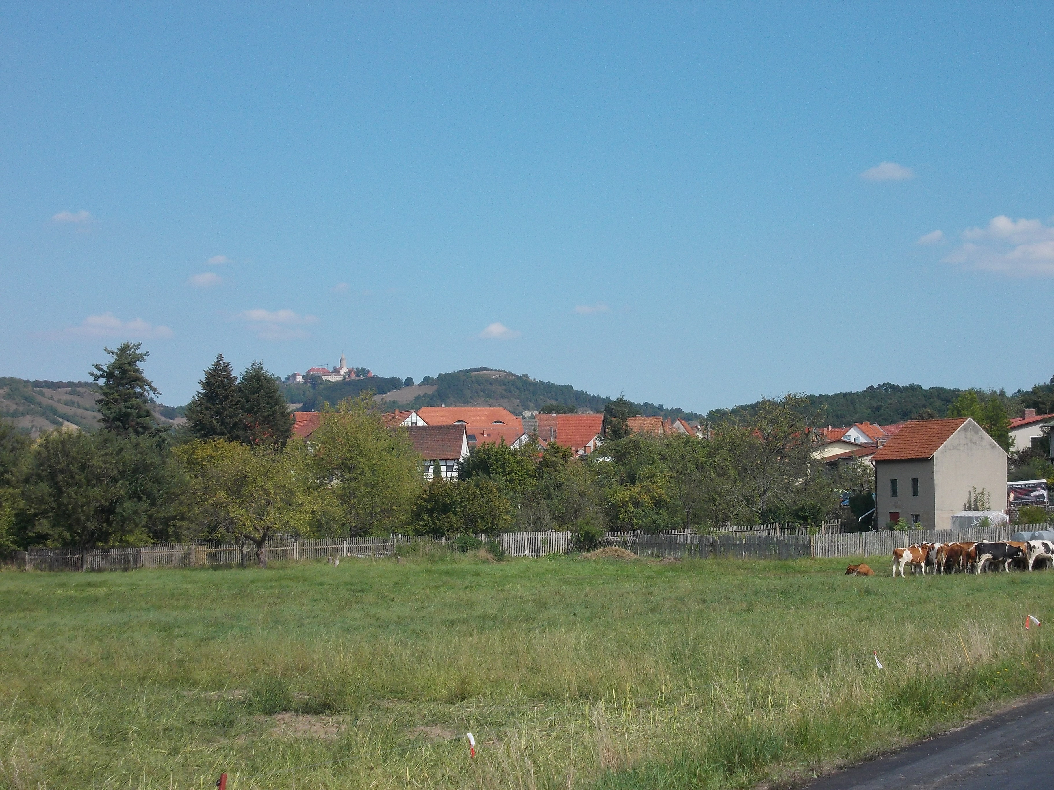 The village of Kleineutersdorf (district: Saale-Holzland-Kreis, Thuringia) with Leuchtenburg castle in the background